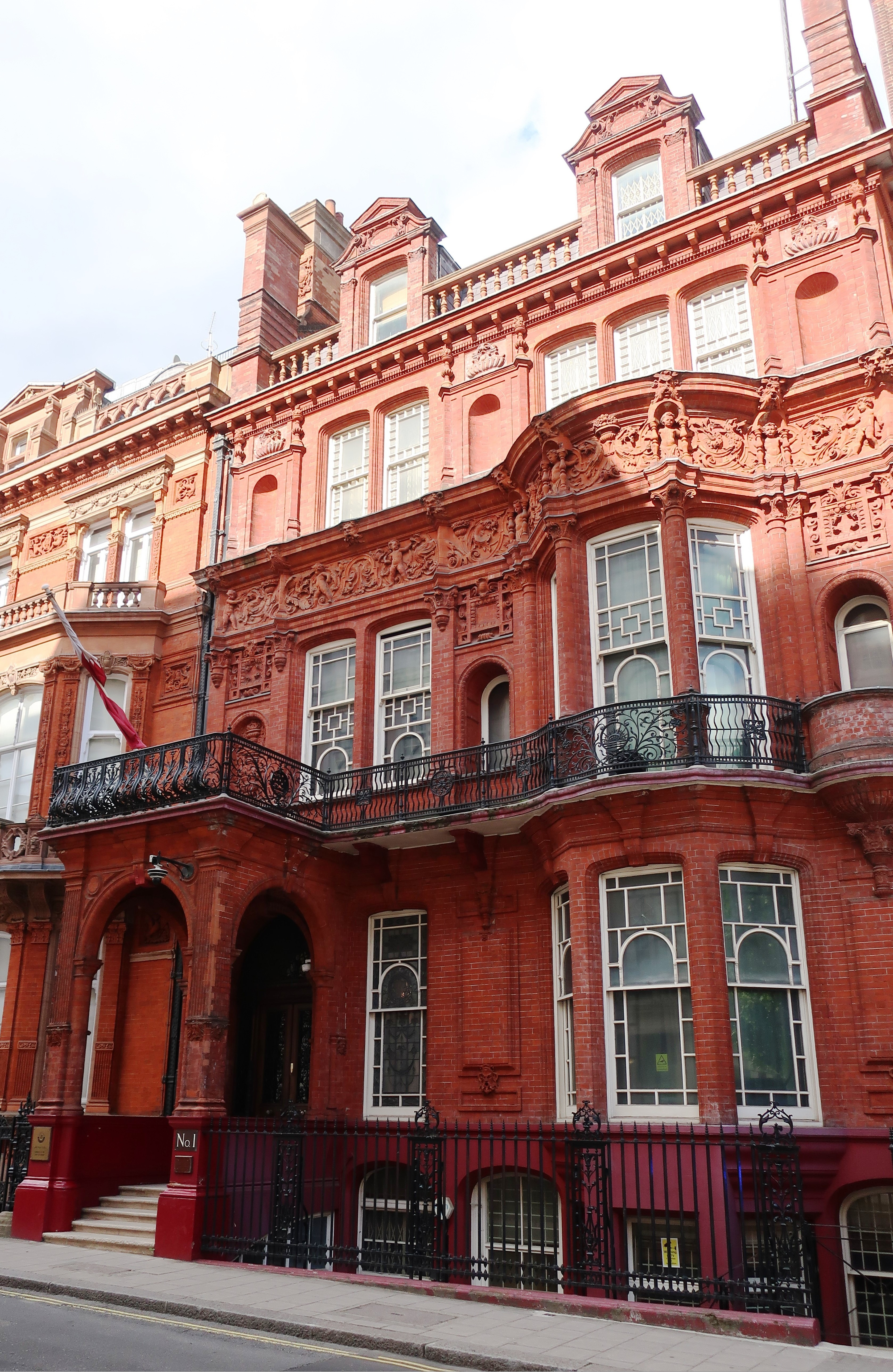 Embassy of Qatar, 1 South Audley Street, Mayfair, London W1